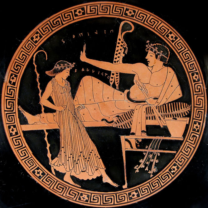 Symposium scene: a reclining youth holds an aulos in one hand and gives another one to a female dancer. Kalos inscription: "PILIPOS KALLISTO" (Philip is the most beautiful). Tondo from an Attic red-figured kylix, ca. 490-480 BC. From Vulci.